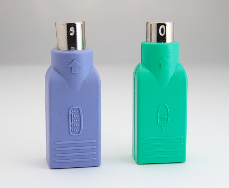 USB to PS/2 keyboard and mouse adapters.